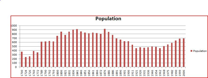 Evolution of the population from 1700 to 2006. Census from 1700 to 1792 proceed from "the Querrieu monograph" by Alfred Gosselin